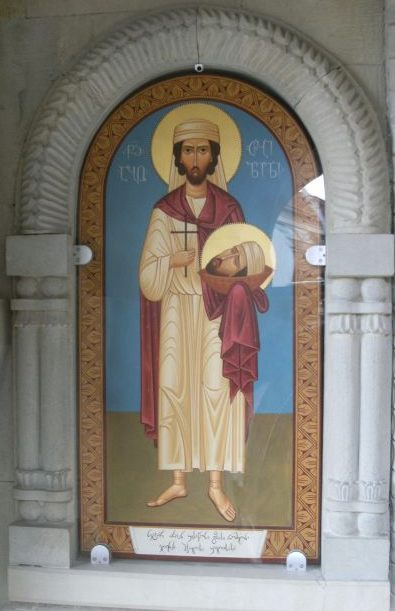 St. Abo of Tbilisi, patron saint of Tbilisi